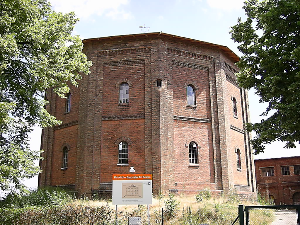 Historic Gasometer Am Graben in Frankfurt (Oder), Brandenburg, Germany